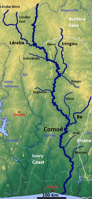 Comoé river OSM